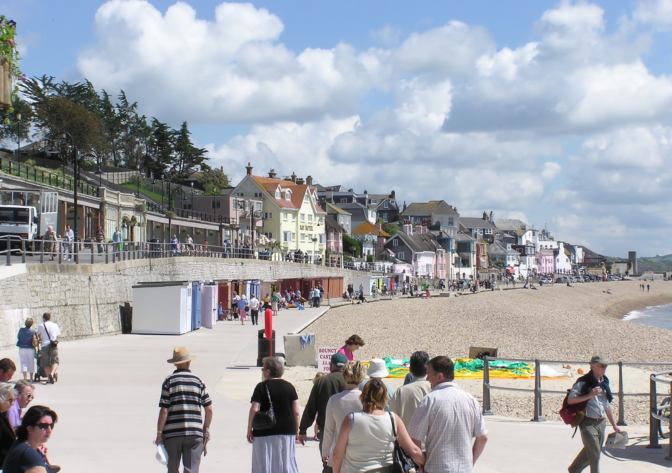 The beach at Lyme Regis, Dorset, England. Taken by Adrian Pingstone in July 2007 and placed in the public domain.